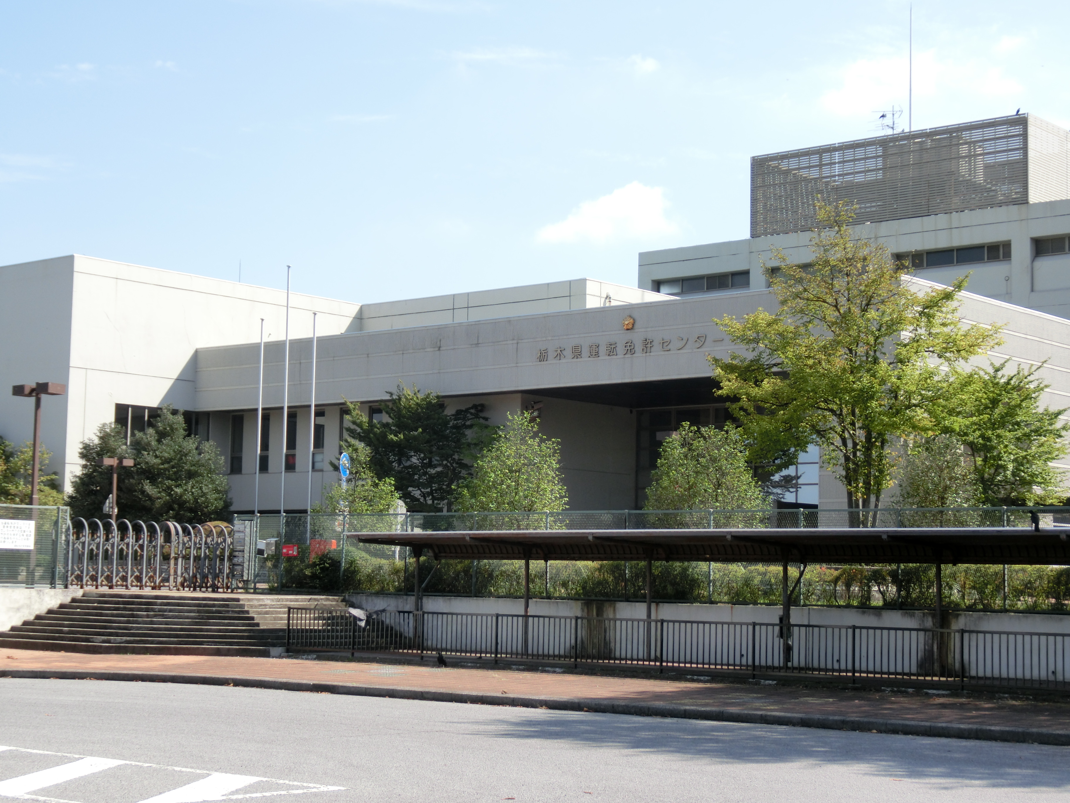 Tochigi Prefectural Driver's License Center